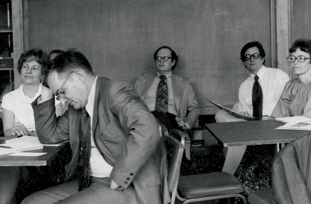 Christendom's founding faculty members meet in the 1970s.